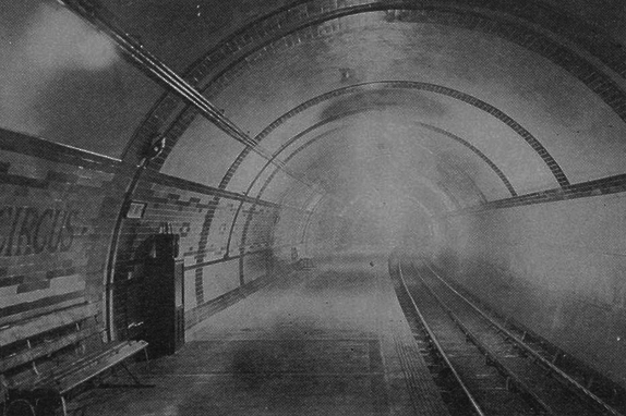 Bakerloo line platform at Oxford Circus Underground station around the time of the opening of the line on 10 March 1906.